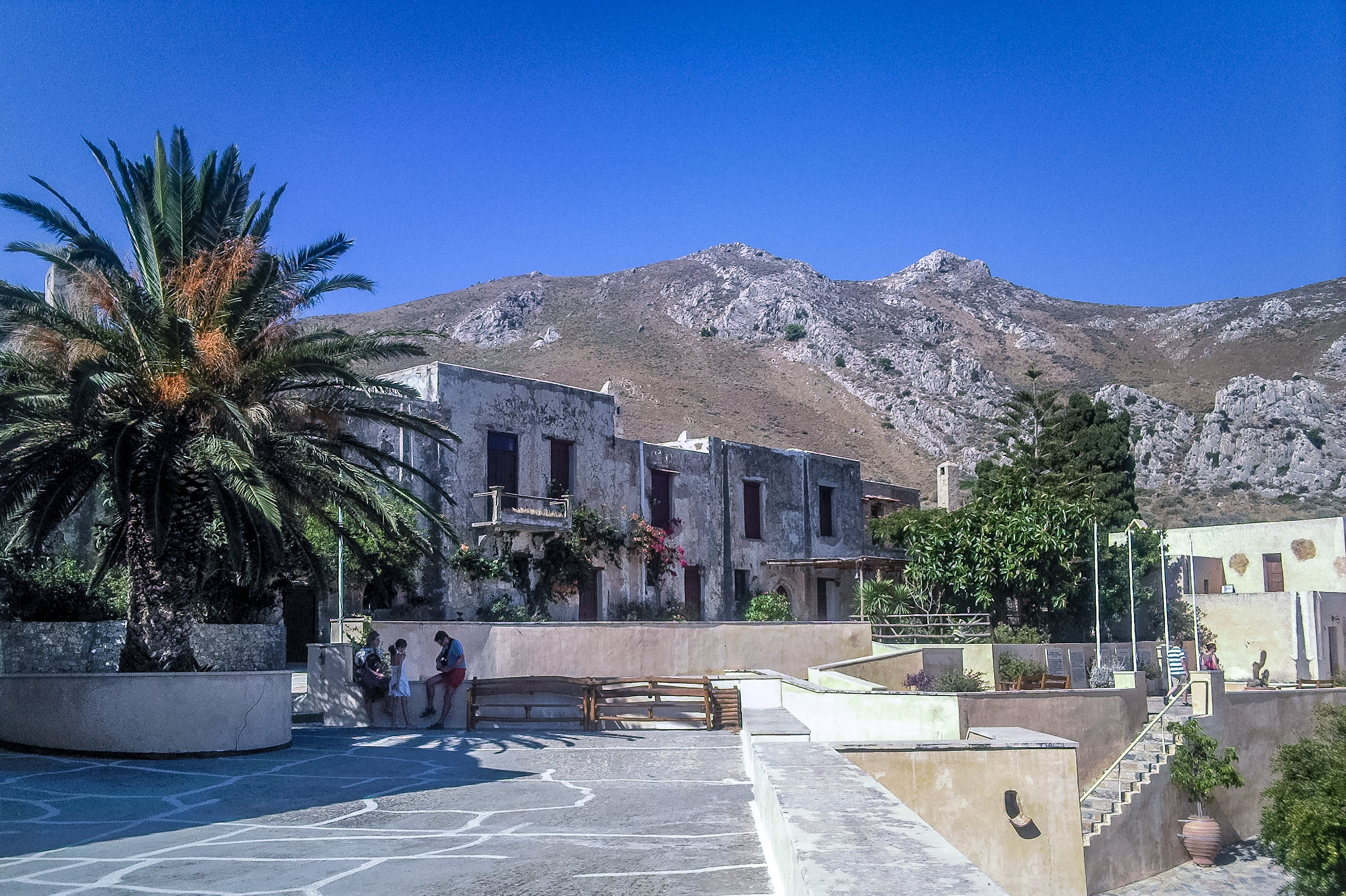 Piso Moni Preveli (monastery), Crete, Greece. This is a photography of Natura 2000 protected area with ID GR4330007